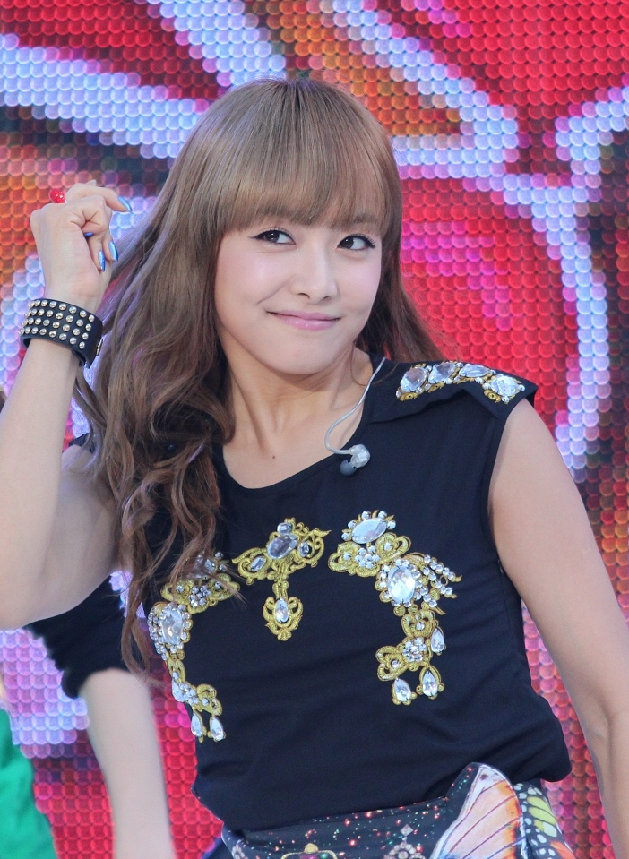 Victoria Song at the M Super Concert on July 28, 2012.